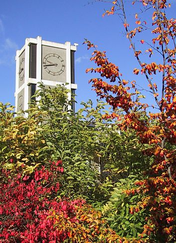 Picture by author (Aaron), 11/2/2001